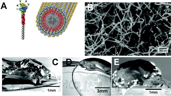 A. Molecular graphics illustration of an IKVAV-containing peptide amphiphile molecule and its self-assembly into nanofibers. B. Scanning electron micrograph of an IKVAV nanofiber network formed by adding cell media (DMEM) to a peptide amphiphile aqueous solution. The sample in the image was obtained by network dehydration and critical-point drying of samples caged in a metal grid to prevent network collapse (samples were sputtered with gold-palladium films and imaged at 10 kV). C. and D. Micrographs of the gel formed by adding to IKVAV peptide amphiphile solutions C cell culture media and D cerebral spinal fluid. E. Micrograph of an IKVAV nanofiber gel surgically extracted from an enucleated rat eye after intraocular injection of the peptide amphiphile solution. Reproduced from (Silva et al. (2004)) Reprinted with permission from AAAS. Readers may view, browse, and/or download material for temporary copying purposes only, provided these uses are for noncommercial personal purposes. Except as provided by law, this material may not be further reproduced, distributed, transmitted, modified, adapted, performed, displayed, published, or sold in whole or in part, without prior written permission from the publisher.